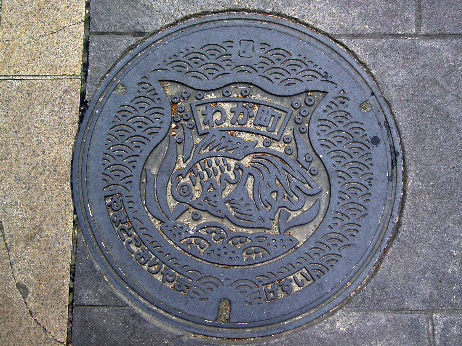 This manhole cover with its goldfish emblem shows the significance of goldfish to the city of Yamatokōriyama, Nara Prefecture, Japan.